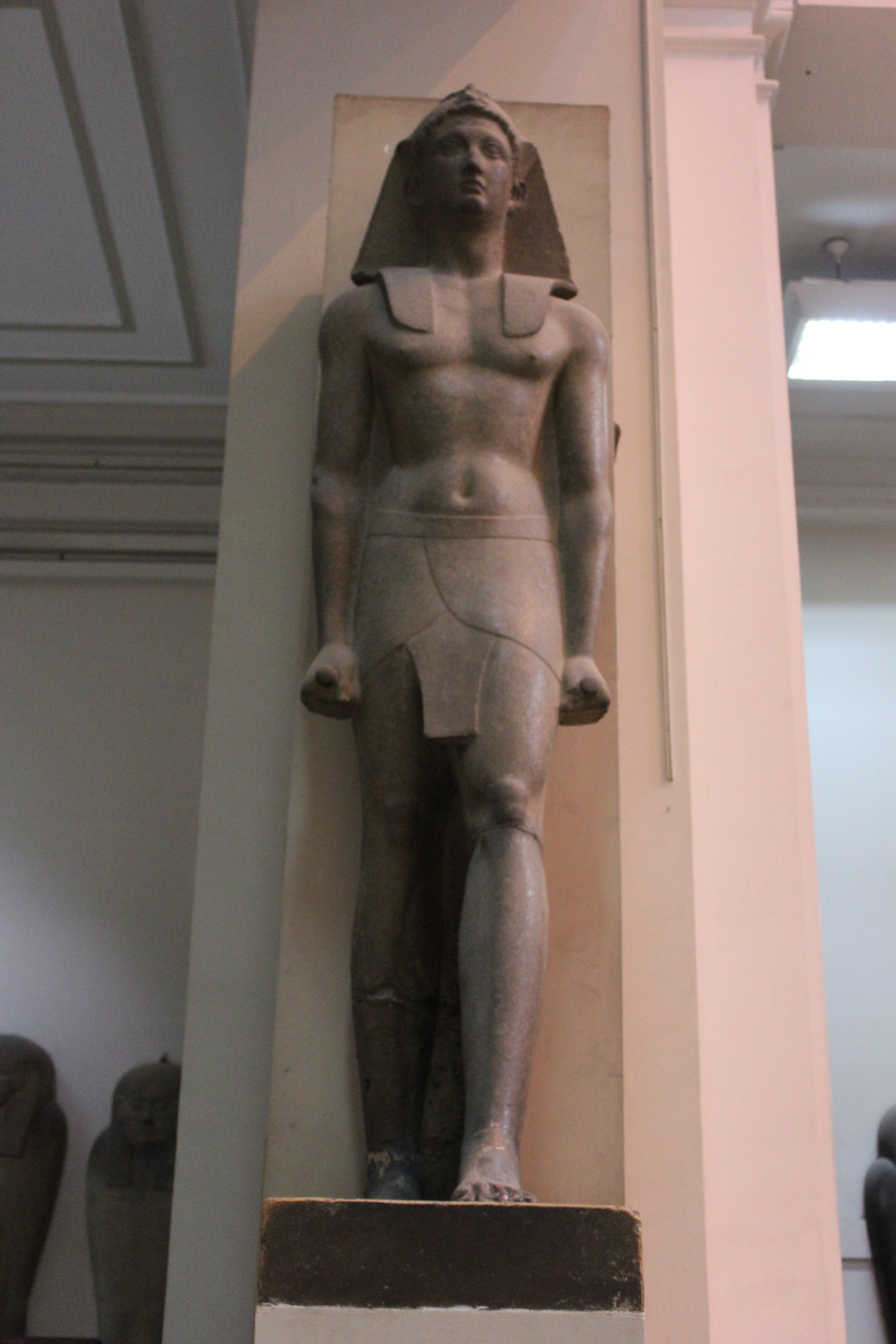 Statue of a Ptolemaic king, Egyptian Museum in Cairo, Egypt.)